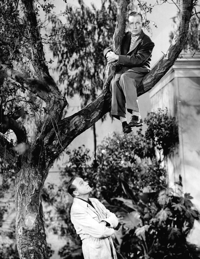 Photo of Jack Benny and Bing Crosby from the television program The Jack Benny Show. After Rochester's trick hammock flings Crosby into a tree, Jack tries to negotiate appearance fees for his program before getting Crosby down.